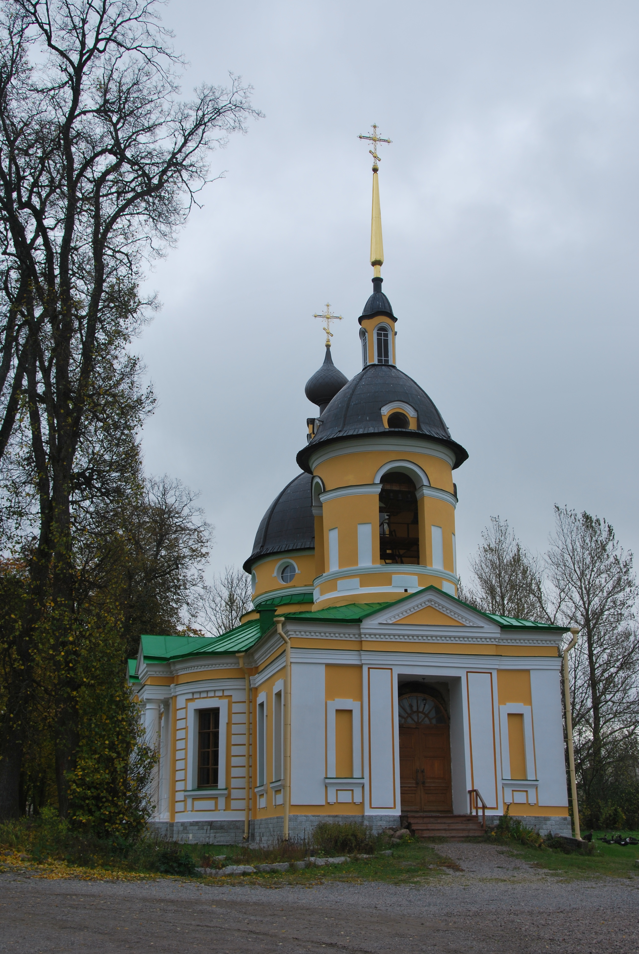 Holy trinity church in Gostilitsy